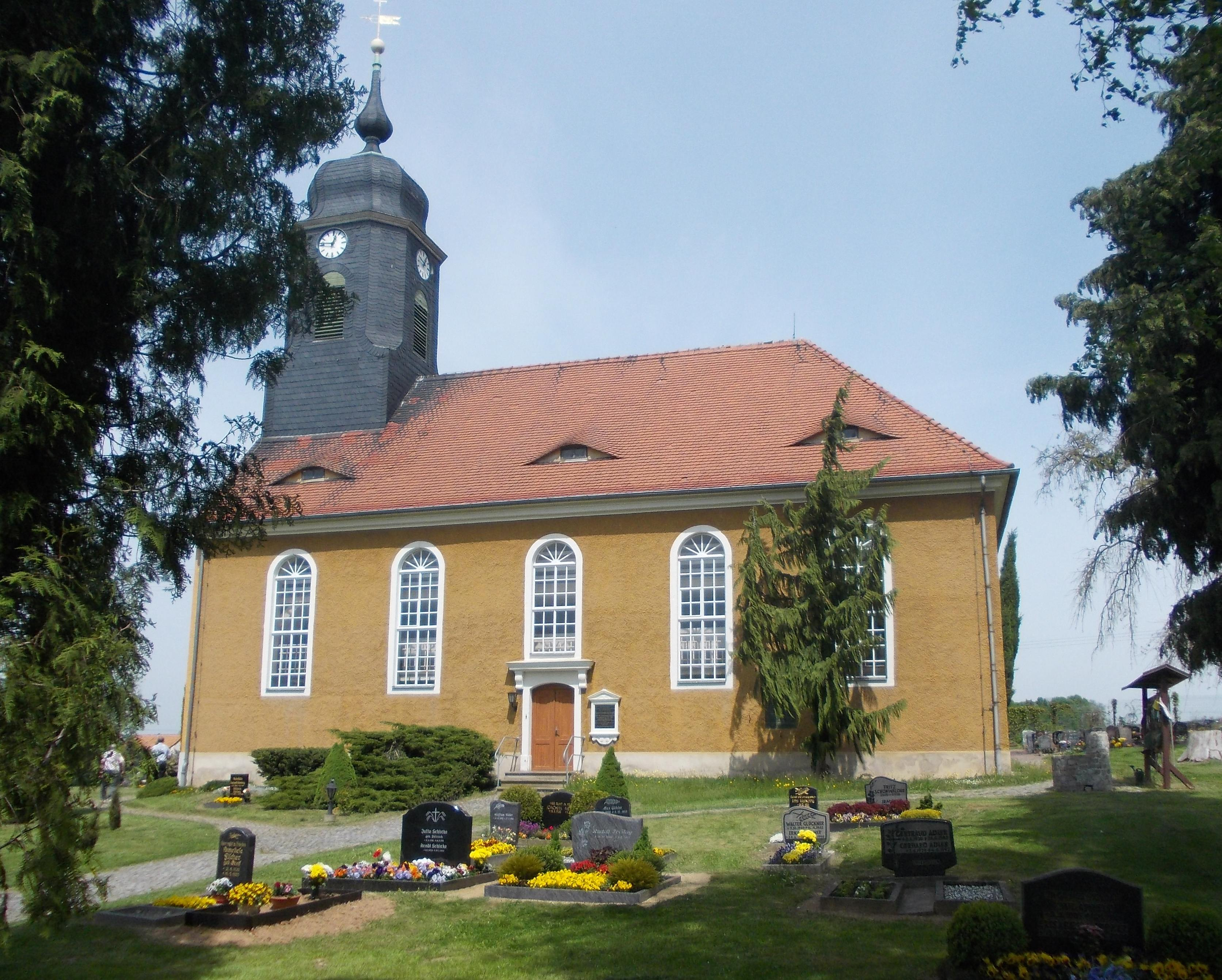 Wendischbora church (Nossen, Meissen district, Saxony)